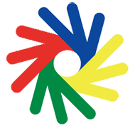 Logo of the International Committee of Sports for the Deaf